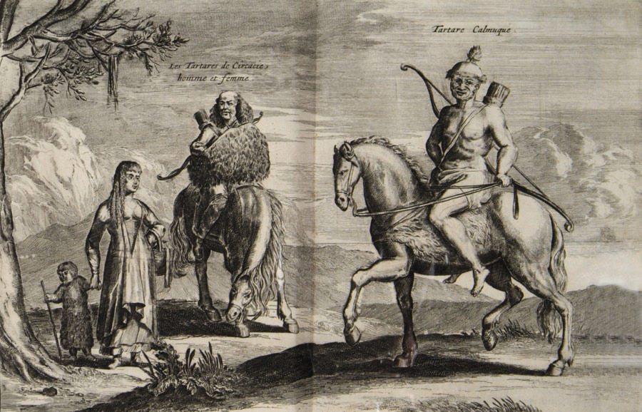 Tatars of XVII c. Engraving from Jan Struys's book published in Amsterdam, 1681